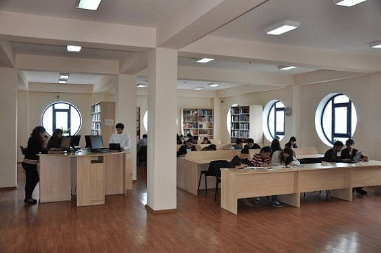 Neftchilar Campus Library and Information Center